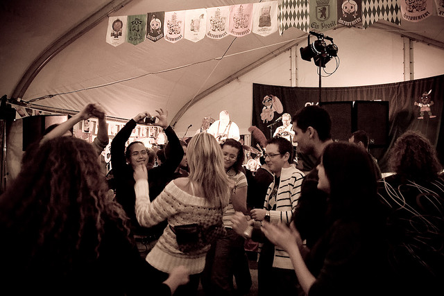 Taken by Alex on Oktoberfest, Kitchener, Ontario @ October 13, 2007